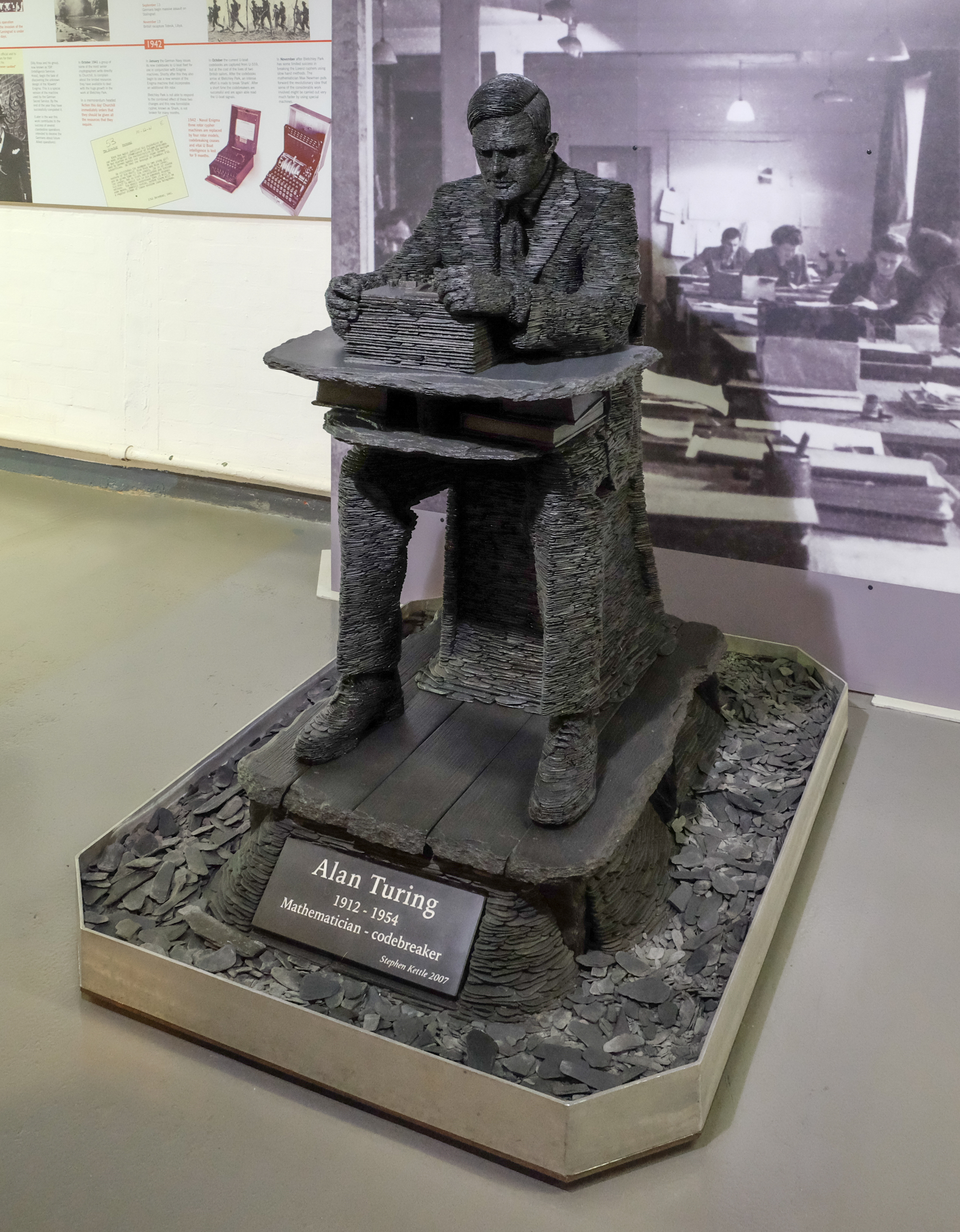 Sculpture in slate of Alan Turing, the father of theoretical computer science and artificial intelligence, by Stephen Kettle (2007). Located in the Bletchley Park Block B Museum.